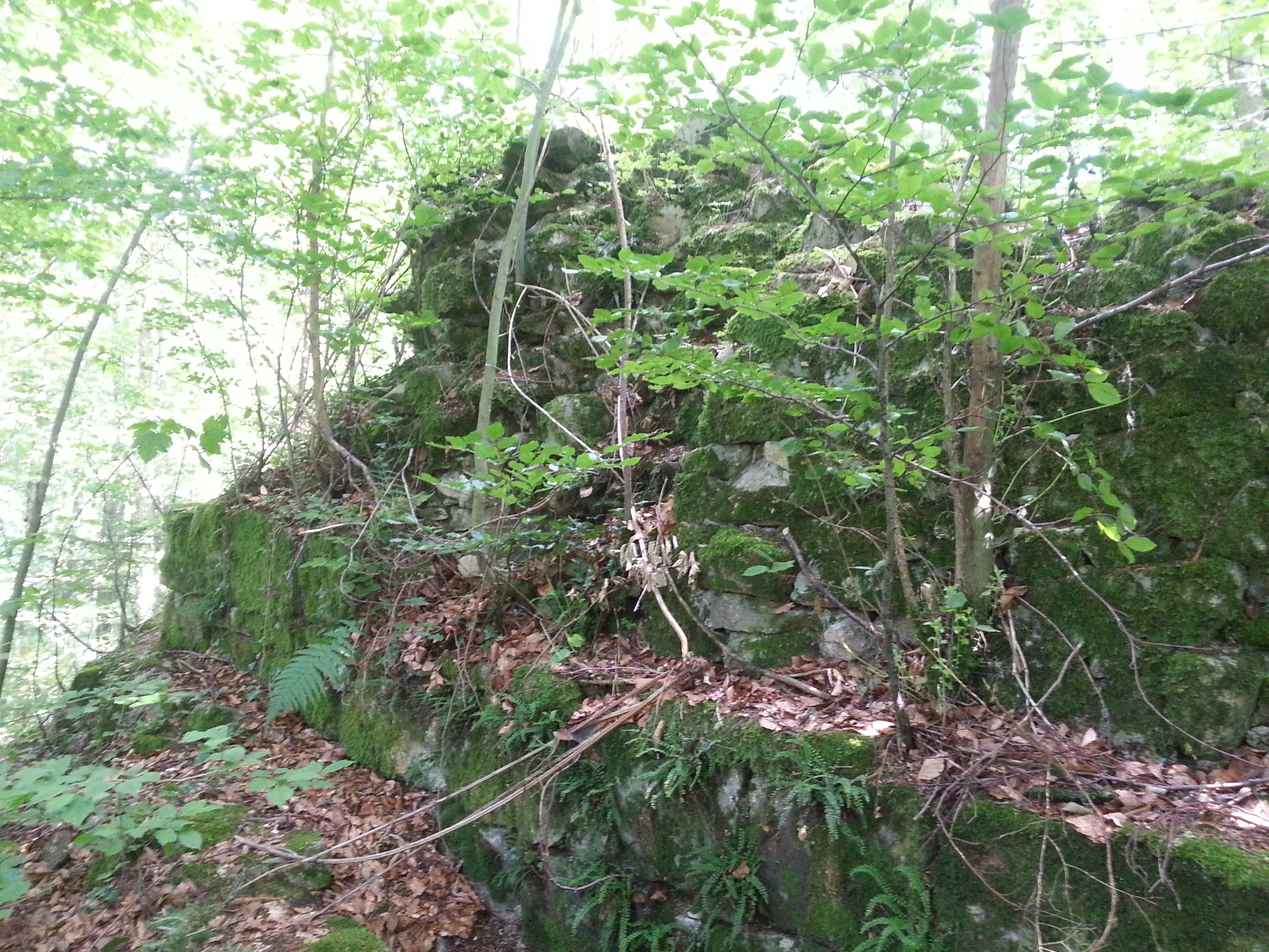 Rest of the tower of Turmhölzle castle